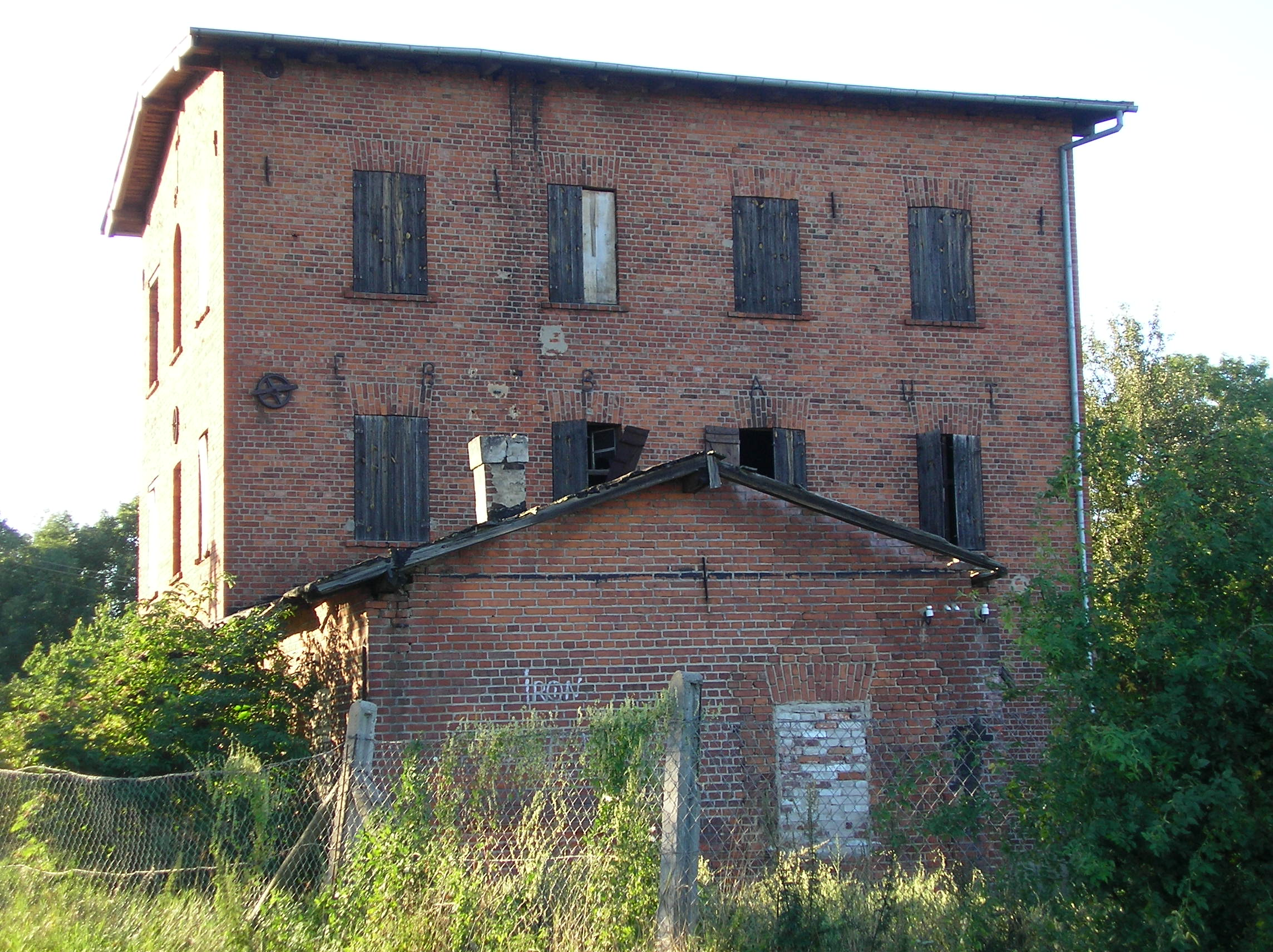 Watermill in Sarbia, Poland